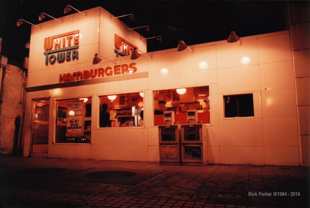 White Tower restaurant, Granby Mall, Norfolk, Virginia, 1984. Has since been demolished.